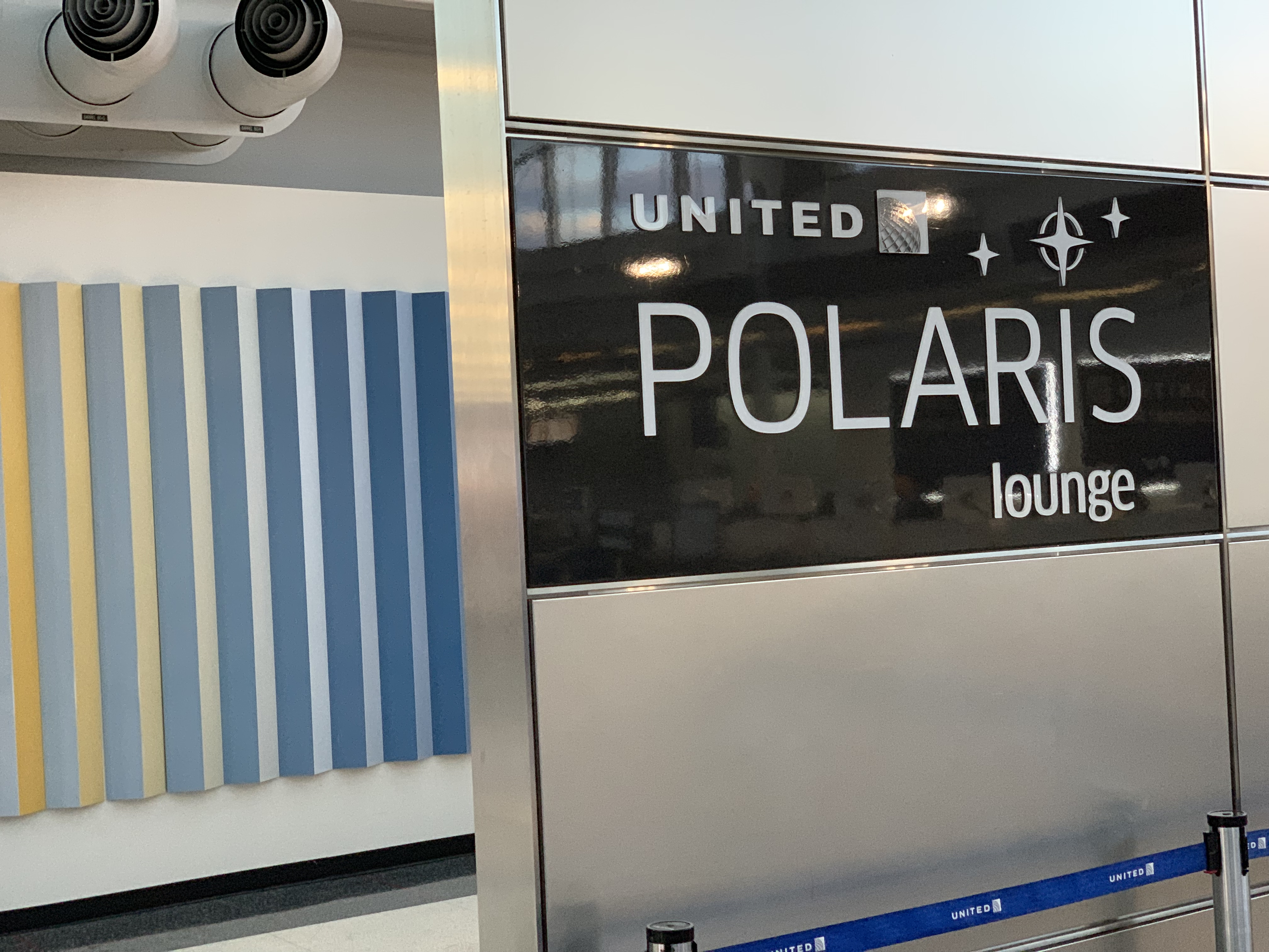 Entrance sign for United's Polaris Lounge at ORD (Chicago) airport by gate C18.